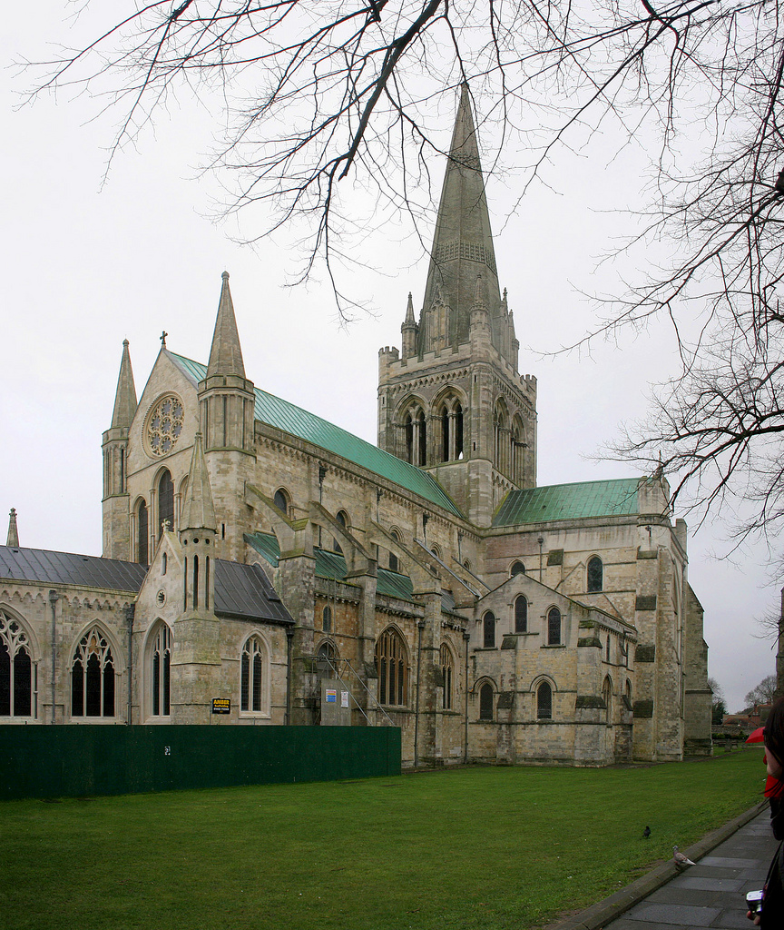 Chichester Cathedral. Three-section (landscape) vertical panorama. Exif data from top image.